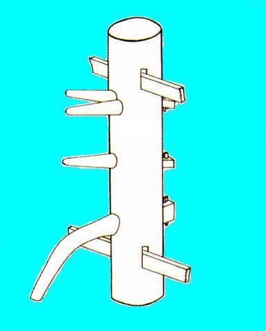 Draw of Muk Yan Jong - Wing Chun Wooden Dummy